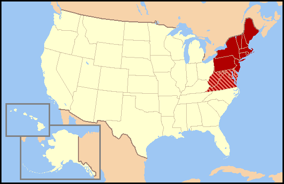 This map was commissioned by WikiProject U.S. regions. Regional definitions vary from source to source and this map does not attempt to favor a single definition. There are most likely definitions that differ from yours so, please do not make changes to this map without discussing them on WikiProject U.S. regions' talk page. Wikipedia:WikiProject U.S. regions/mnote made this from the exisiting image , which is also released under GNU.